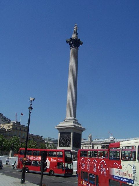 London : Westminster - Nelson's Column at Trafalgar Square The column was built between 1840 and 1843 to commemorate Admiral Horatio Nelson's death at the Battle of Trafalgar in 1805. The 5.5 m (18 ft) statue of Nelson stands on top of a 46 m (151 ft) granite column.